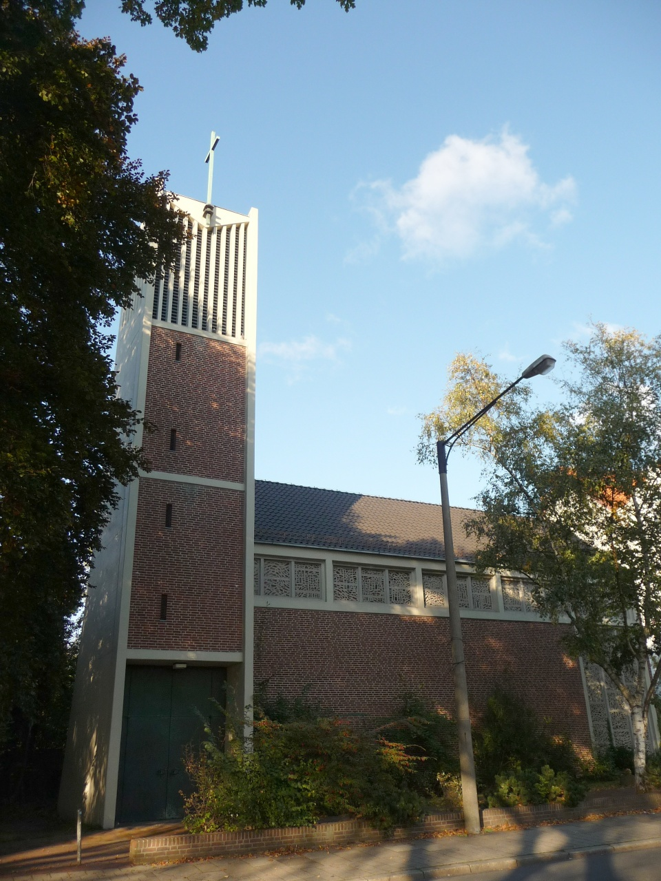 St.-Petri-Chapell in Bremen, Osterdeich